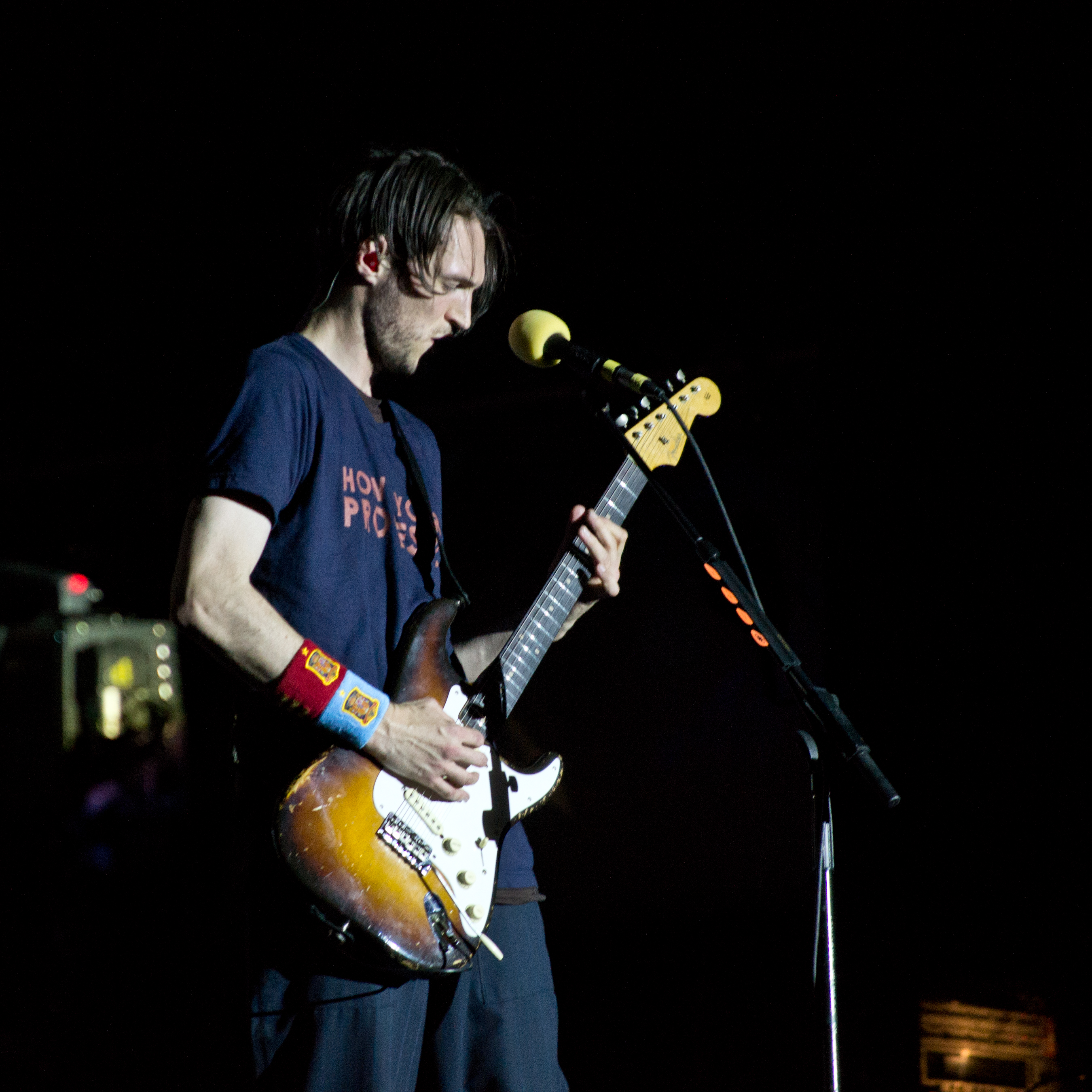 Red Hot Chili Peppers in Rock in Rio Madrid 2012.